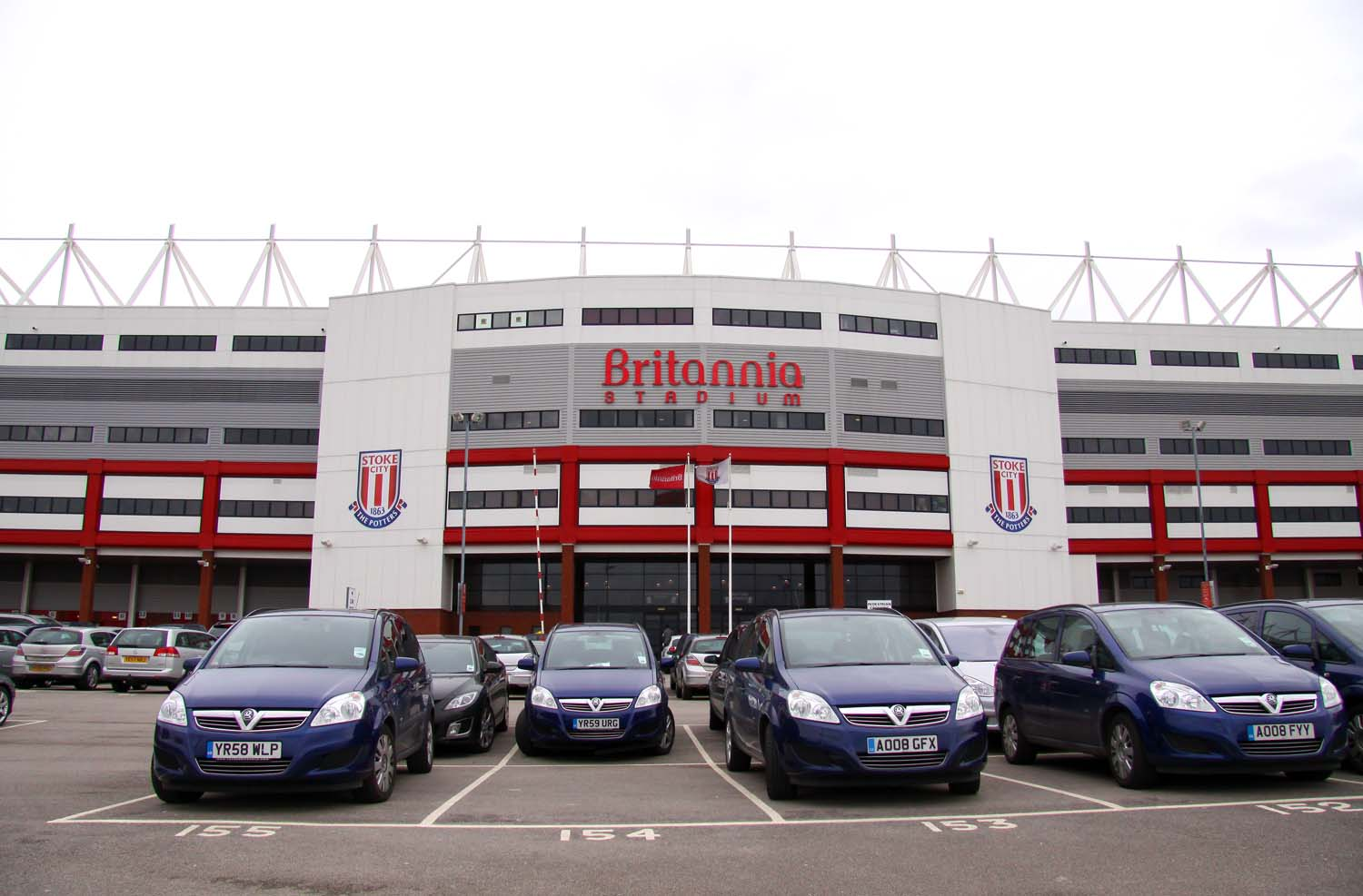 The Britannia Stadium, near to Fenton, Stoke-on-Trent, Great Britain.